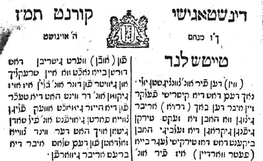 A scan of the Dienstagische Kurant, the first-ever Yiddish language newspaper, published in Amsterdam 1687.